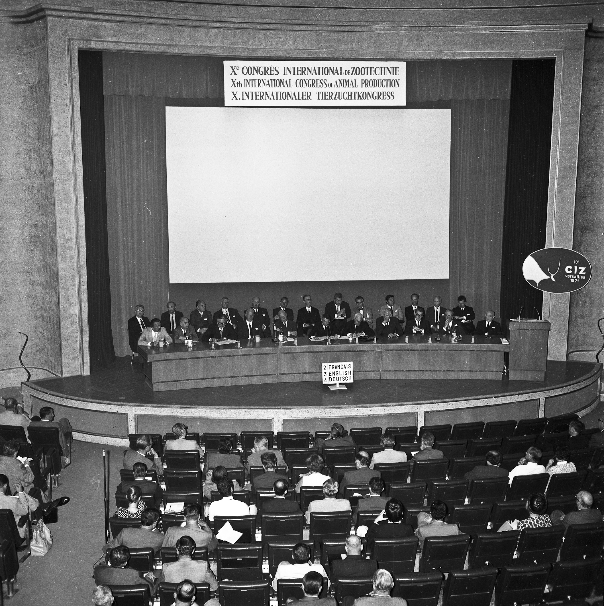 Congrès mondial de zootechnie au palais des congrès de Versailles